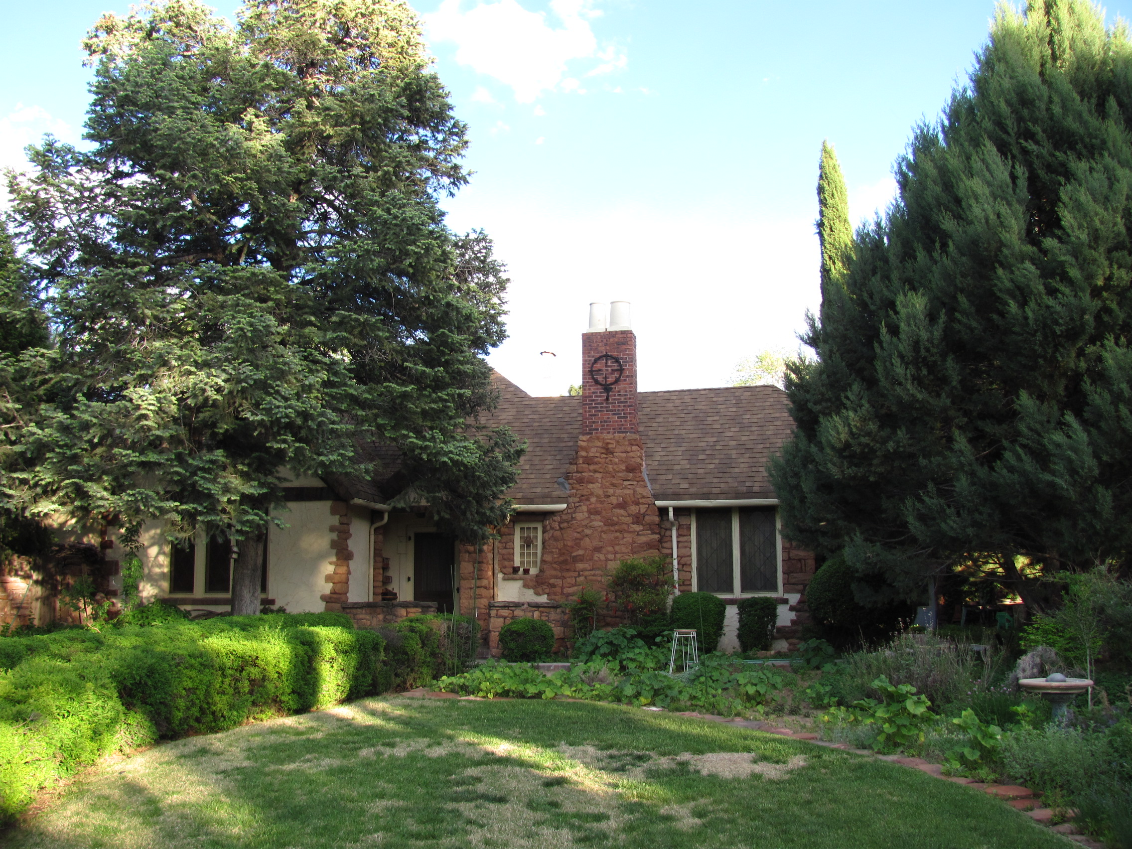 Davis House, Albuquerque New Mexico